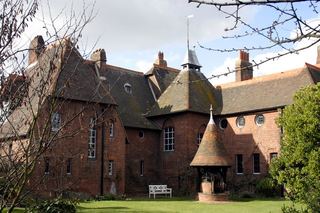 Rear of Red House, Bexleyheath